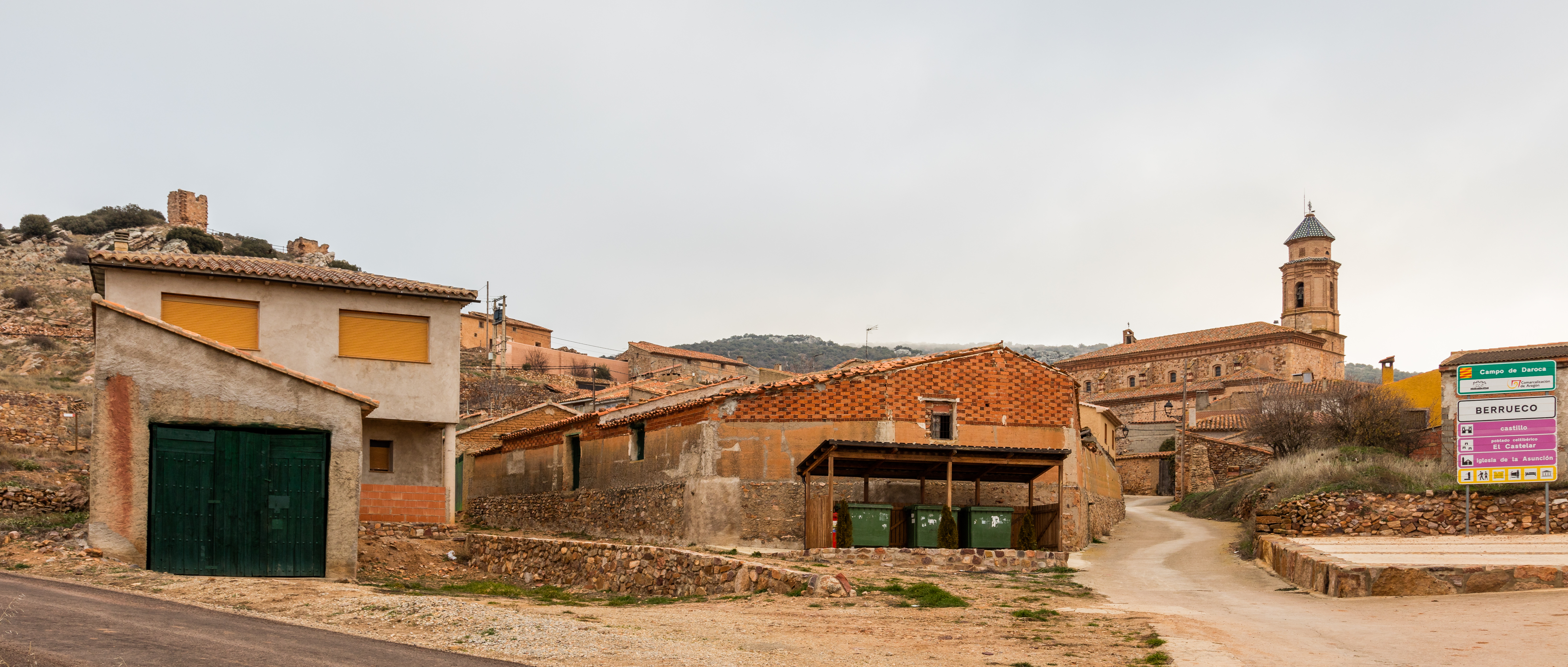 Berrueco, Zaragoza, Spain